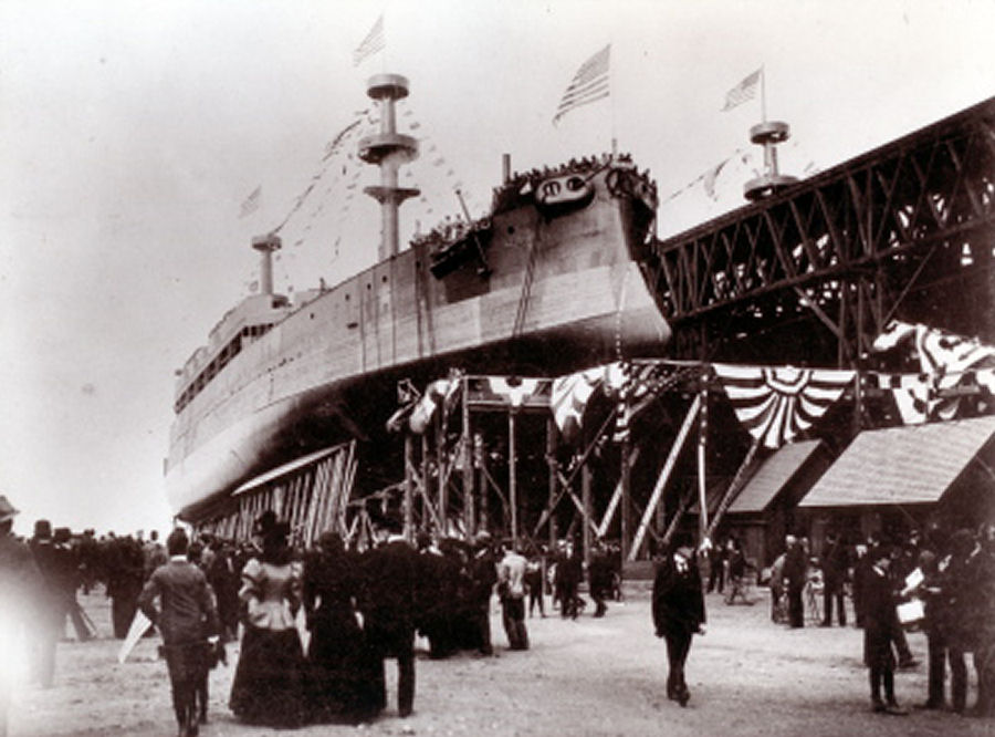 Wooded beams hold up Kearsarge (BB-5) in Newport News, Virginia on the day of its launching.